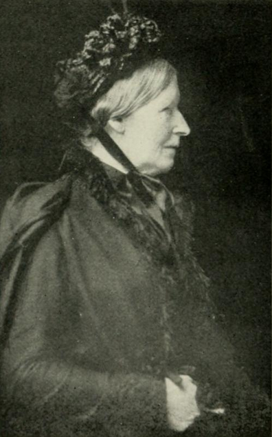 Harriet Newell Haskell , from a 1908 publication.